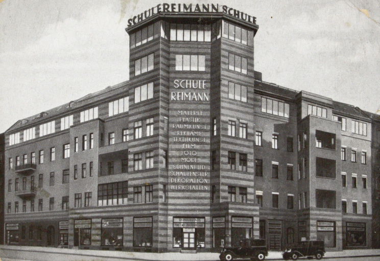 Postcard of the Reimann Art School in Berlin